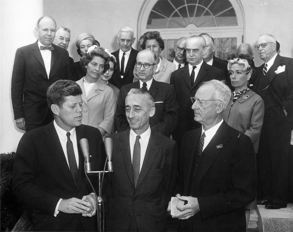 President John F. Kennedy presents the National Geographic Society’s Gold Medal to Captain Jacques Cousteau, Director General of the Oceanarium of Monaco (center) on the steps of the West Wing Colonnade, White House, Washington, D.C. President and editor of National Geographic Melville Bell Grosvenor (right of Cousteau) looks on. Among those standing on the steps are French Ambassador to the United States Hervé Alphand and his wife Nicole Merenda Alphand; Cousteau’s wife Simone Melchior Cousteau. Persons: Alphand, Hervé, 1907-1994 Alphand, Nicole Merenda, 1917-1979 Cousteau, Jacques Yves, 1910-1997 Cousteau, Simone Melchior, 1919-1990 Grosvenor, Melville Bell, 1901-1982 Kennedy, John F. (John Fitzgerald), 1917-1963 accession number: AR6526-A digital identifier: JFKWHP-AR6526-A